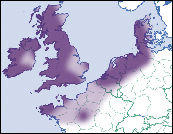 Zonitoides excavatus (Alder, 1830). Distribution in Europe, scientific state of knowledge of 2012. Source description in English. Light colour indicated rare occurrences or regions where the species could eventually be expected to occur. Dark colour indicated relatively reliable occurrences, as well as regions where the species was expected to occur, and where the species was not known to be extremely rare. Dark colour indications were not necessarily based on published records. Species summary in AnimalBase